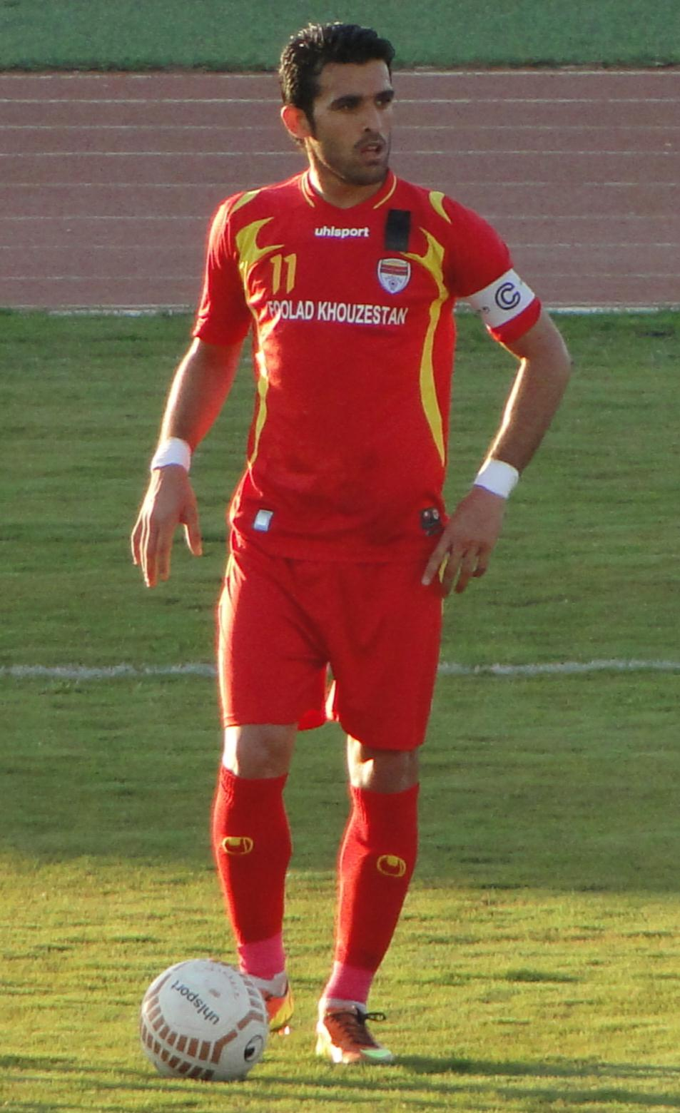 Bakhtiar Rahmani